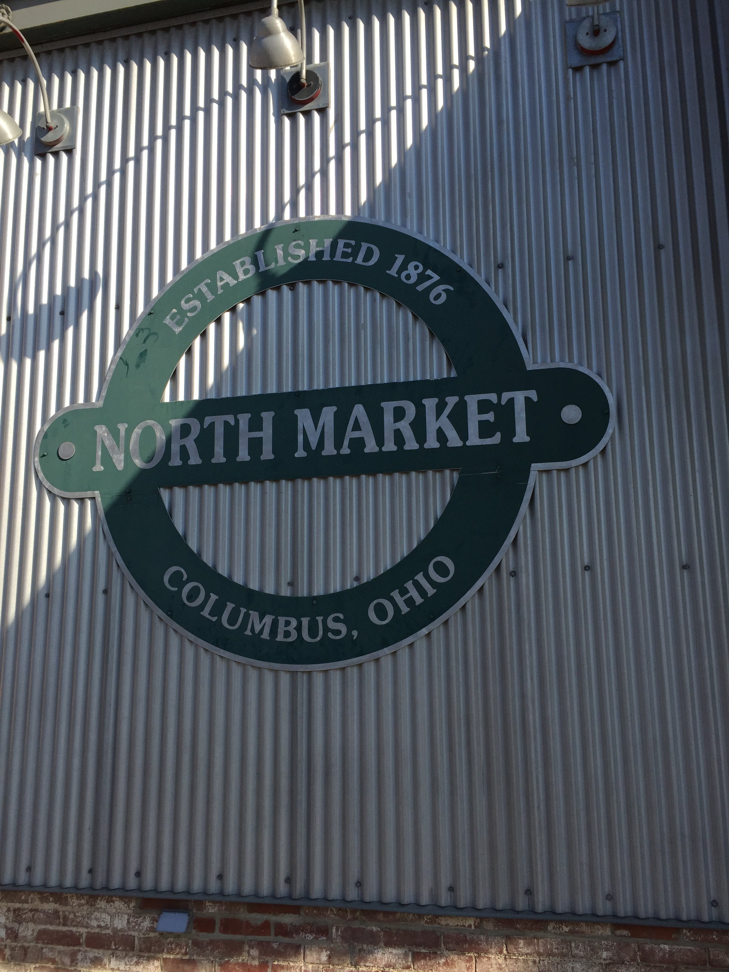 A market in the Park Street District in Columbus, Ohio